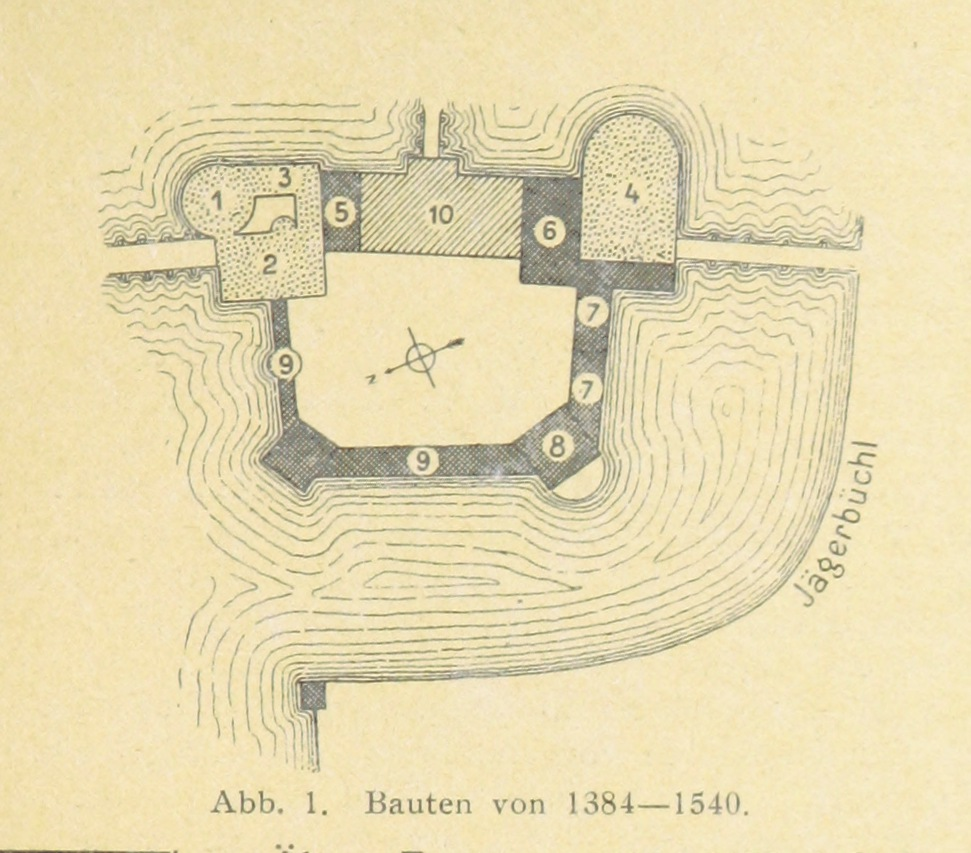 View this map on the BL Georeferencer service. Image taken from: Title: "Führer durch die k. Residenz zu München. Historischtopographische Beschreibung, etc. [With plates and plans.]" Author: AUFLEGER, Otto - and SCHMID (Wolfgang Maria) Contributor: SCHMID, Wolfgang Maria. Shelfmark: "British Library HMNTS 10250.pp.49." Page: 23 Place of Publishing: München Date of Publishing: 1897 Issuance: monographic Identifier: 000140761 Explore: Find this item in the British Library catalogue, 'Explore'. Download the PDF for this book (volume: 0) Image found on book scan 23 (NB not necessarily a page number) Download the OCR-derived text for this volume: (plain text) or (json) Click here to see all the illustrations in this book and click here to browse other illustrations published in books in the same year. Order a higher quality version from here.